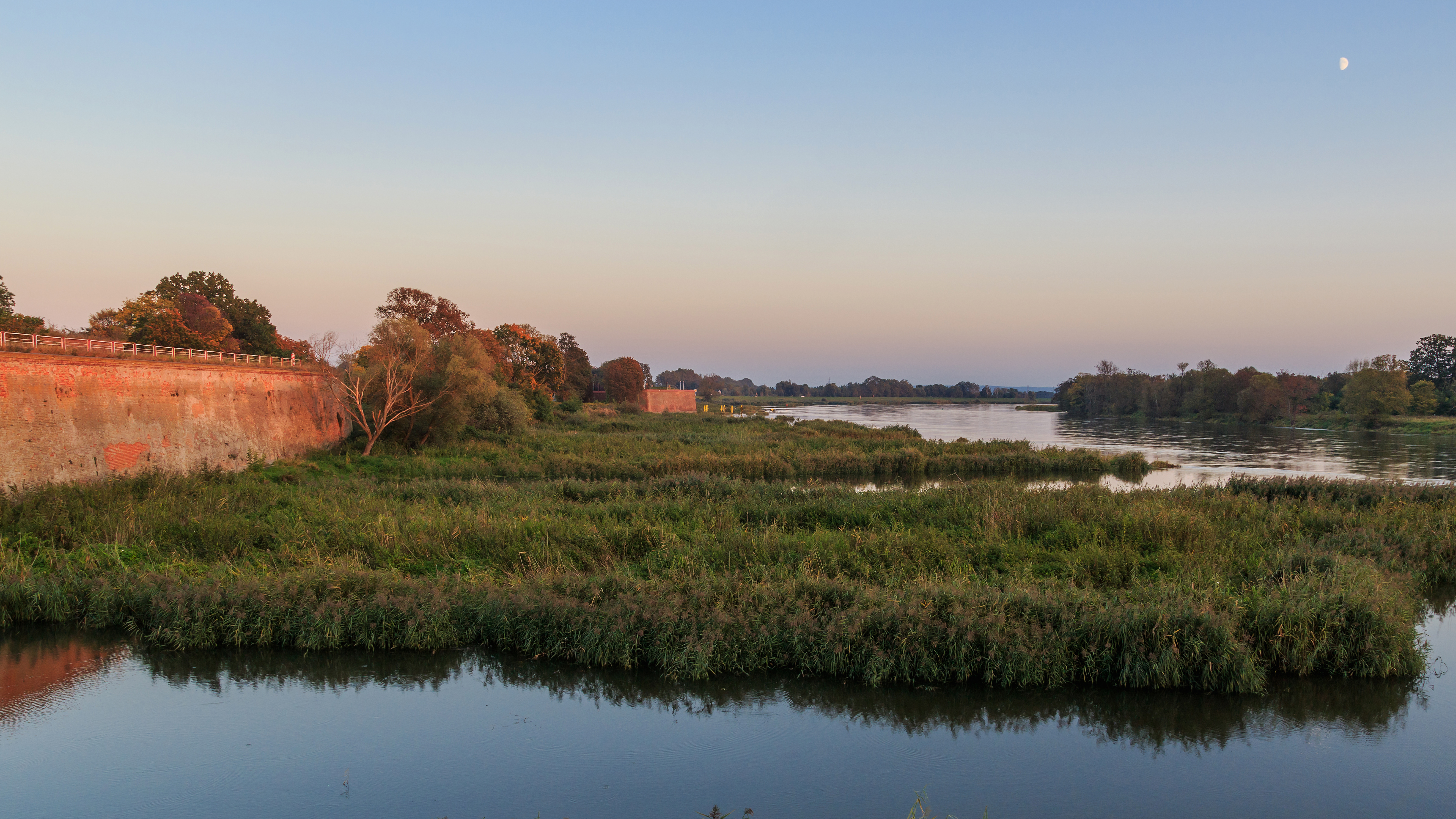 Fortification wall in Kostrzyn nad Odrą (Poland)